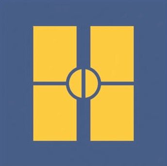 Pre–2012 logo of Hillsboro, Oregon.